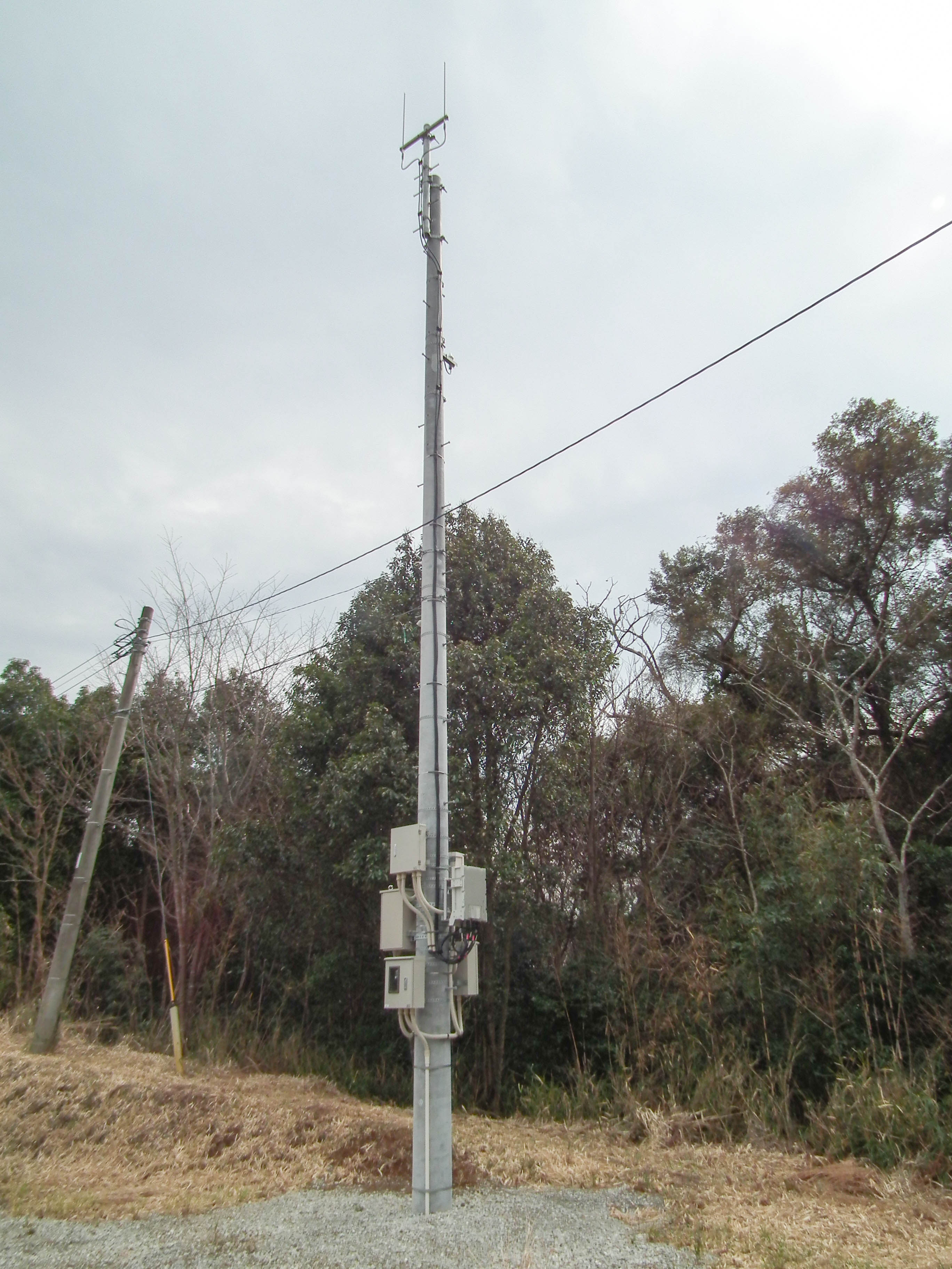 Cable media waiwai Co., Ltd WiMAX Base Station